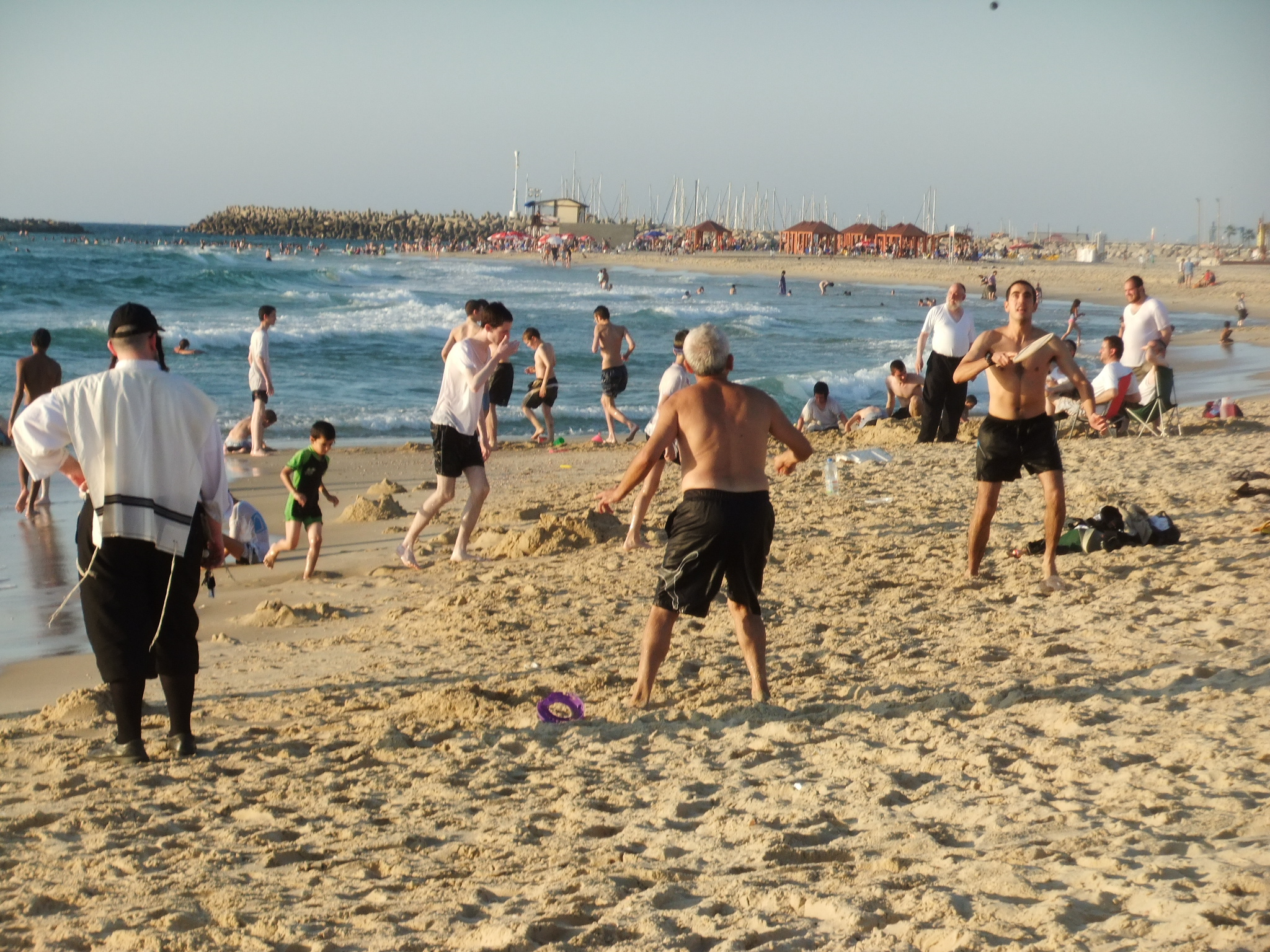 Separate beach in Ashkelon